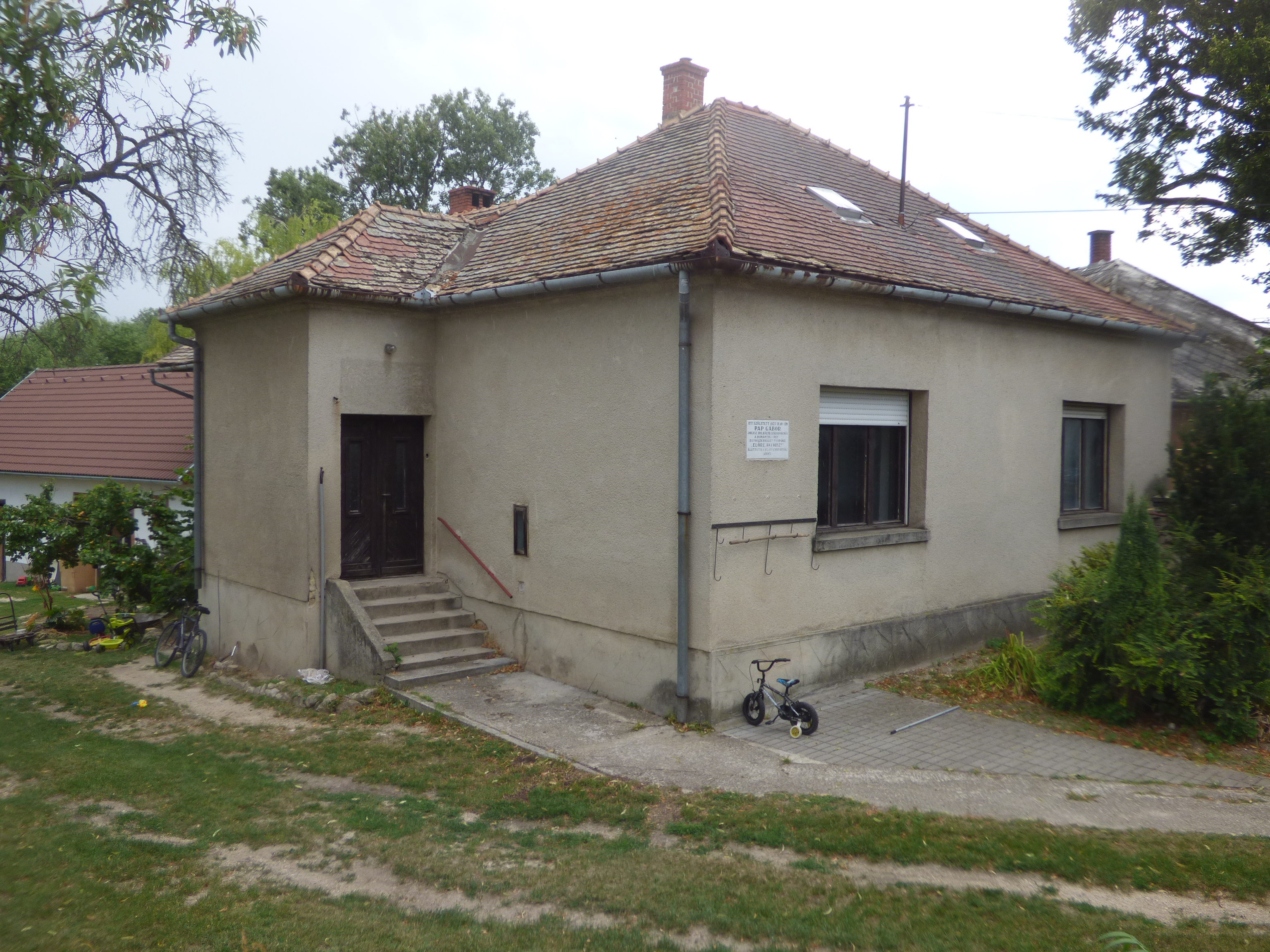 Pap Gábor püspök vilonyai szülőháza